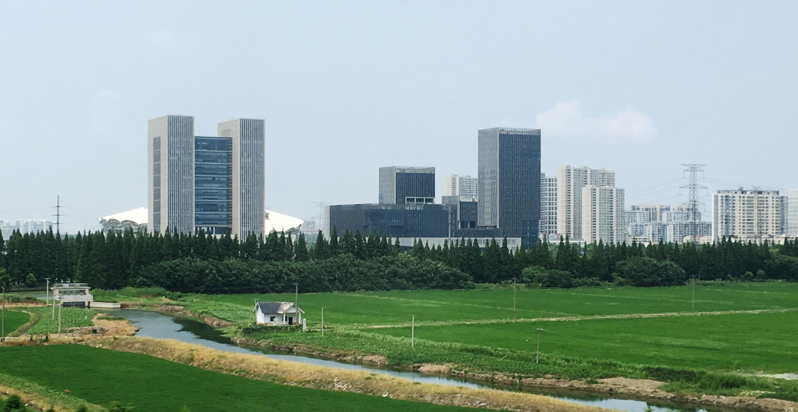 Image from the Central, business part of Kunshan District town, a part of Suzhou city, in Jiangsu province, China. Kunshan Sports Center in the backround.